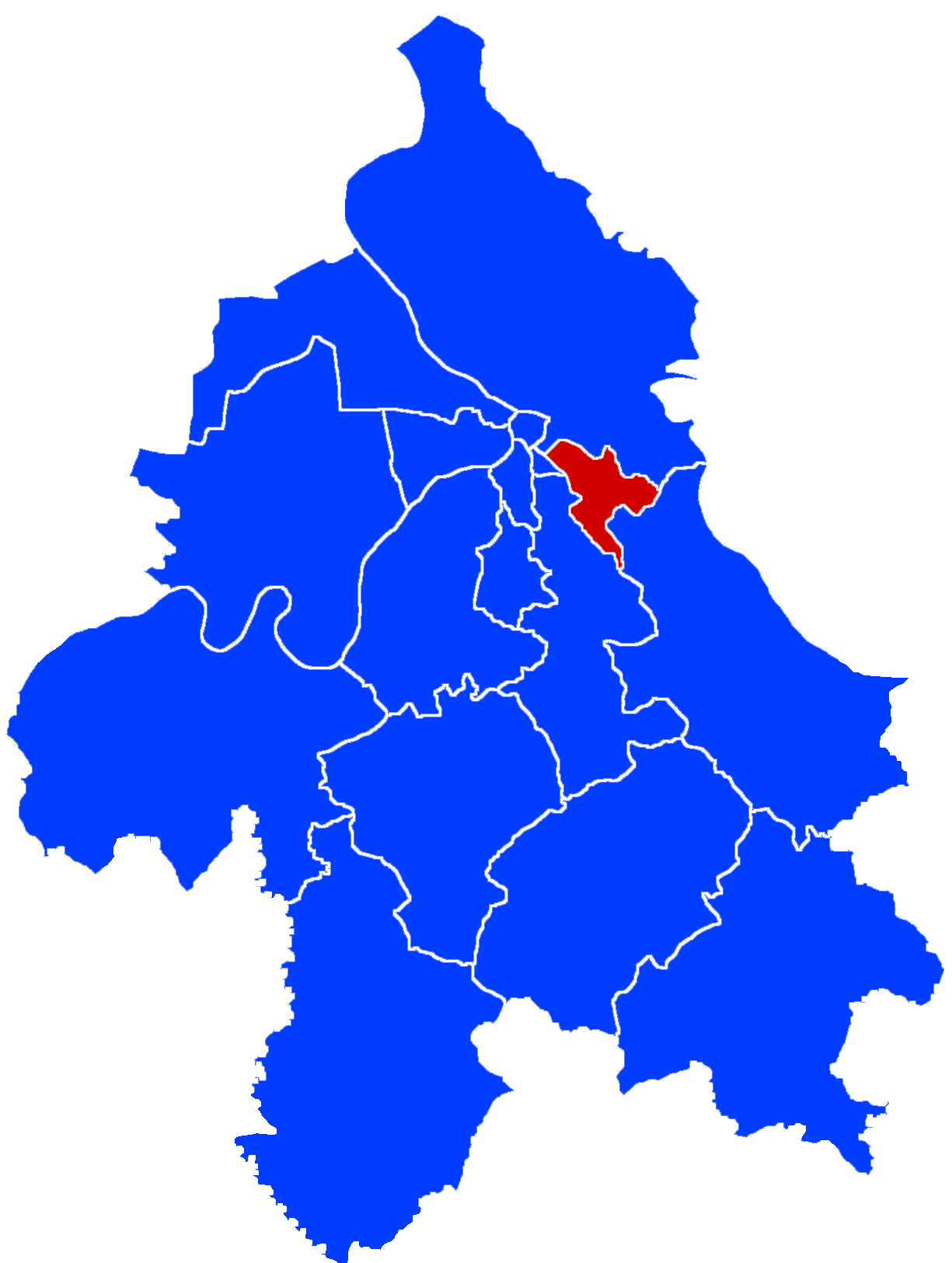 The graphical representation of the municipality of Zvezdara within the city of Belgrade